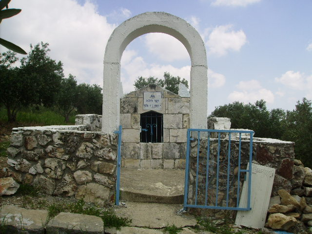 Tomb of the Tanna Rabbi Shimon Ben Elazar in Sajur